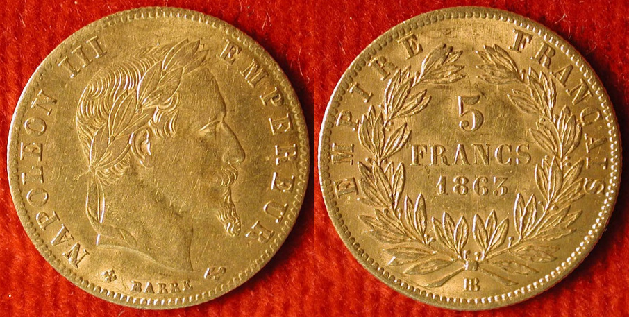 France, coin 5 francs (gold), 1863 - Napoleon III. The place of coinage is Strasbourg.